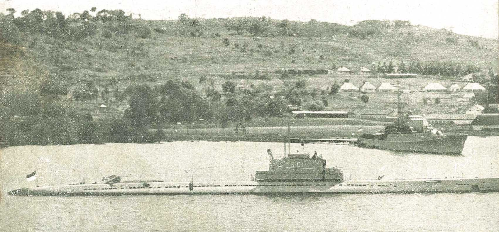 RI Tjakra